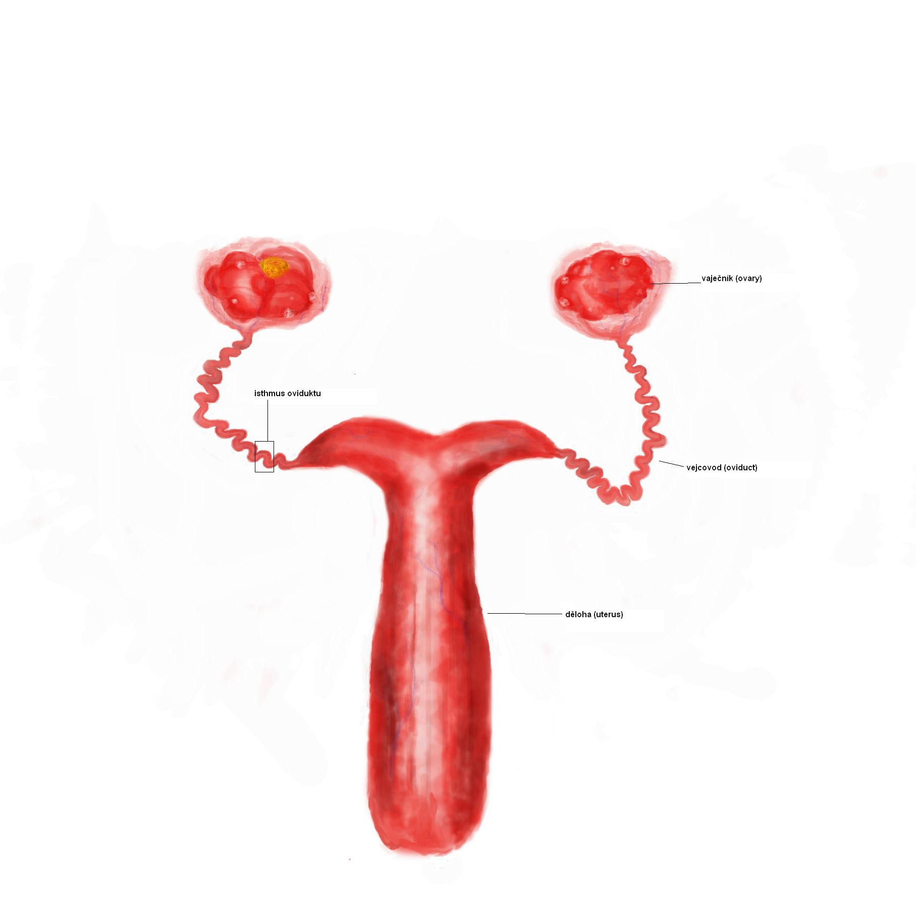 female reproductive tract